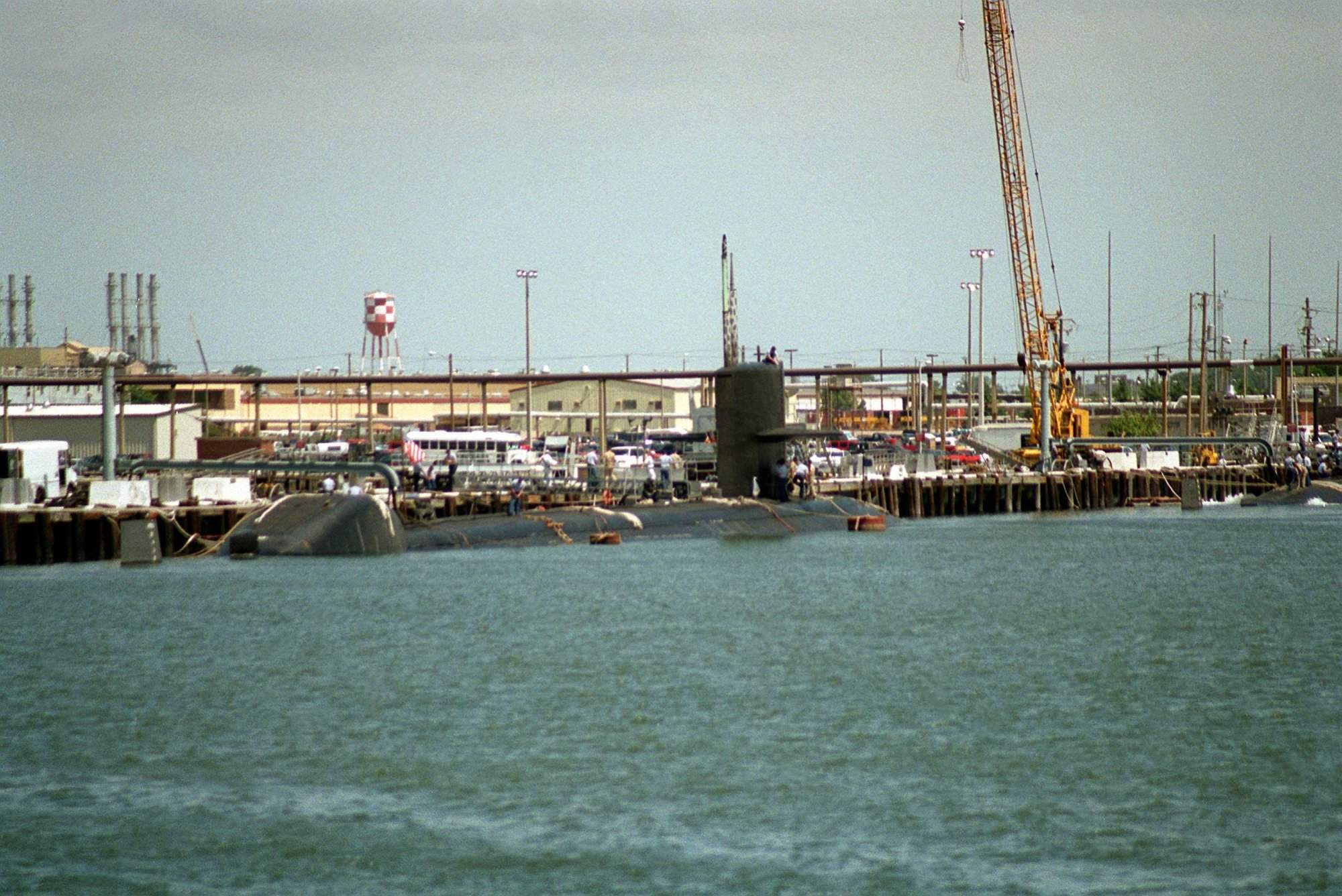 A starboard quarter view of the nuclear-powered attack submarine Narwhal (SSN-671) tied up at NAS Norfolk, Pier 22, Berth 4 on 19 August 1995. The hump at the stern of the Narwhal is a special sonar unit to assist a DSRV.